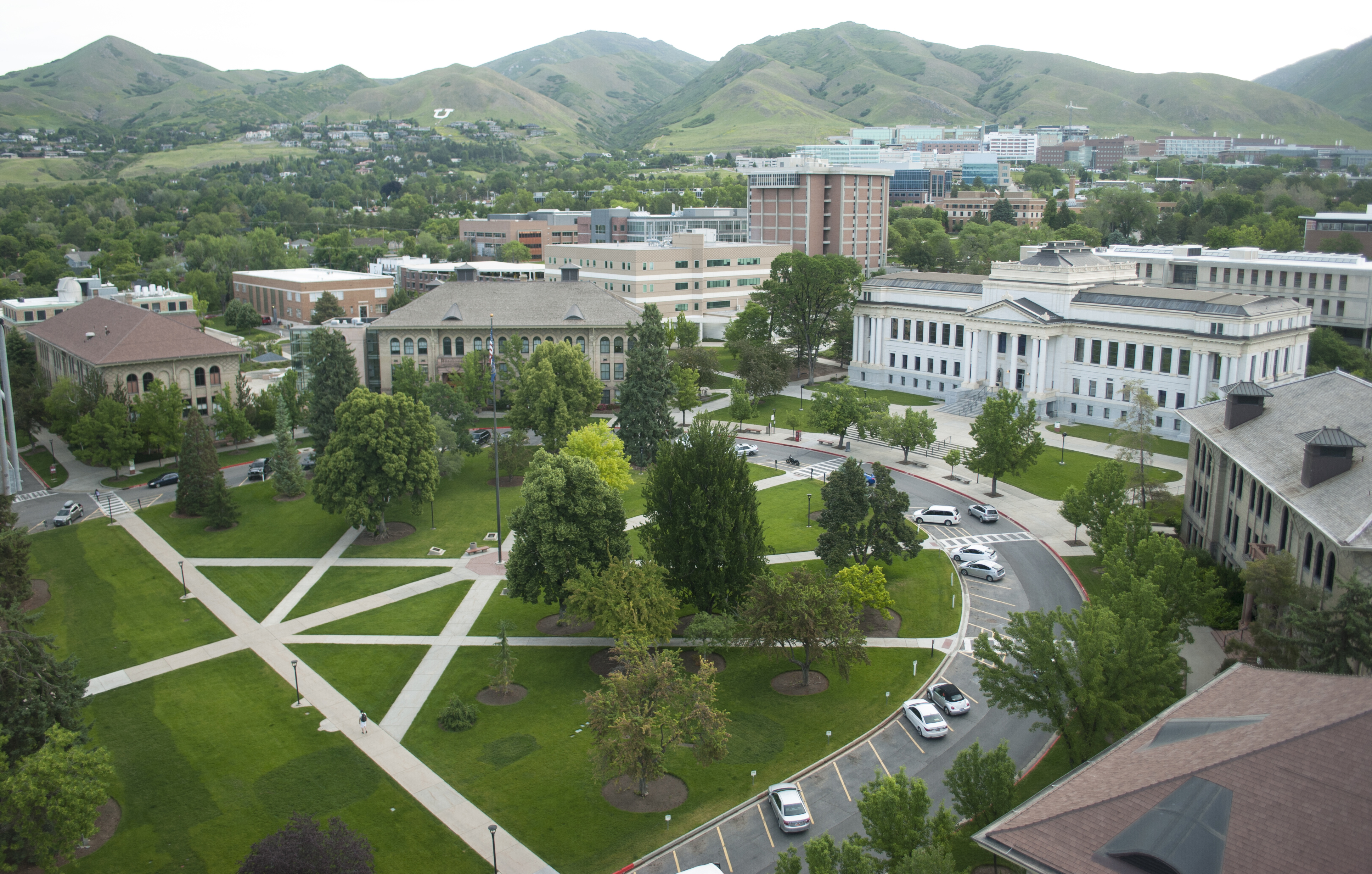 Photo of Presidents Circle on the campus of the University of Utah